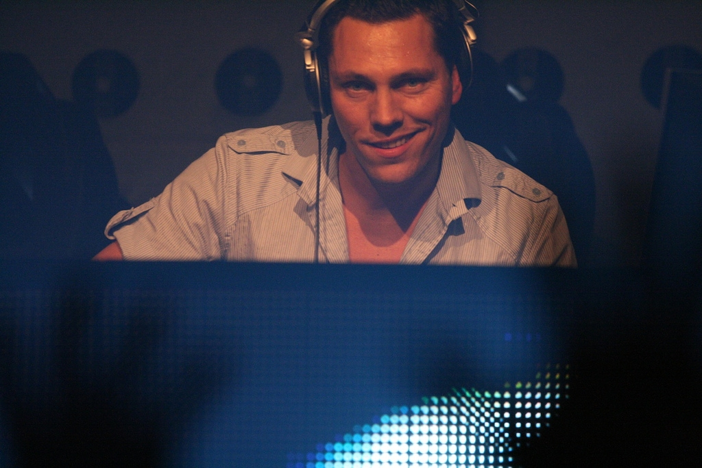 DJ Tiësto during the Elements of Life Tour.